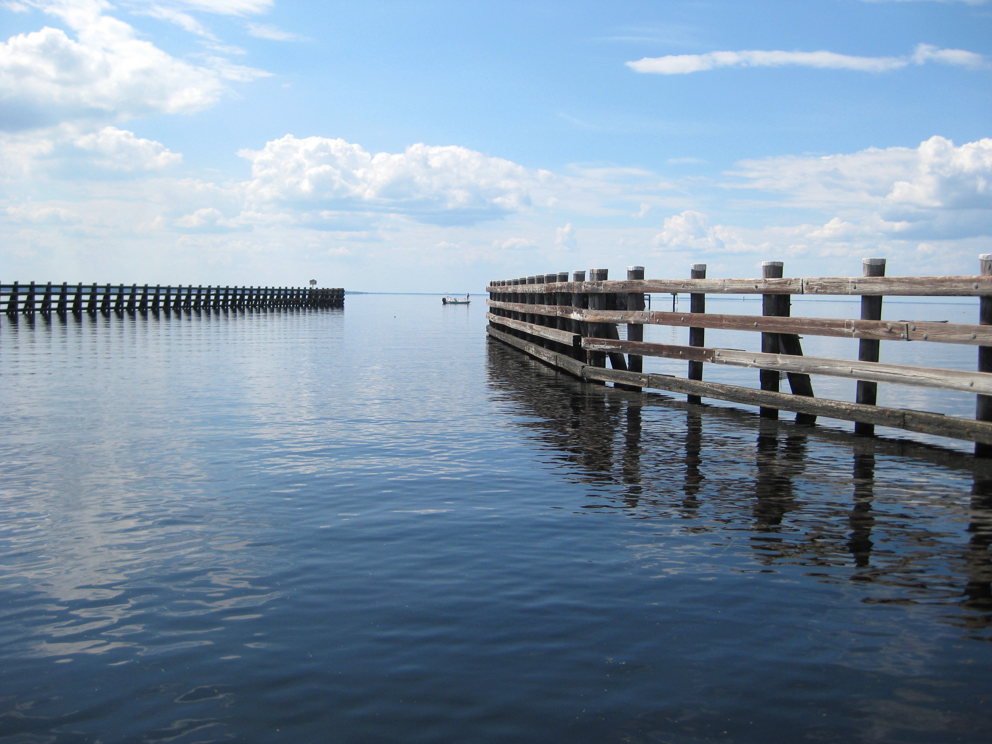 The navigable channel for vessels entering Lake George from the south on the St. Johns River in Volusia County, Florida, USA.